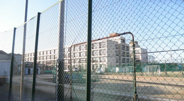 Harimaminami high school